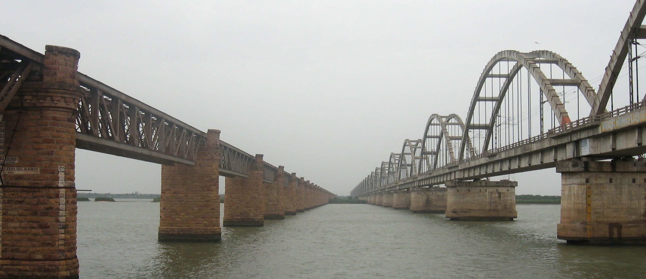 The bridge on the left is more than a 100 years old and is currently out of use. Rajahmundry, AP